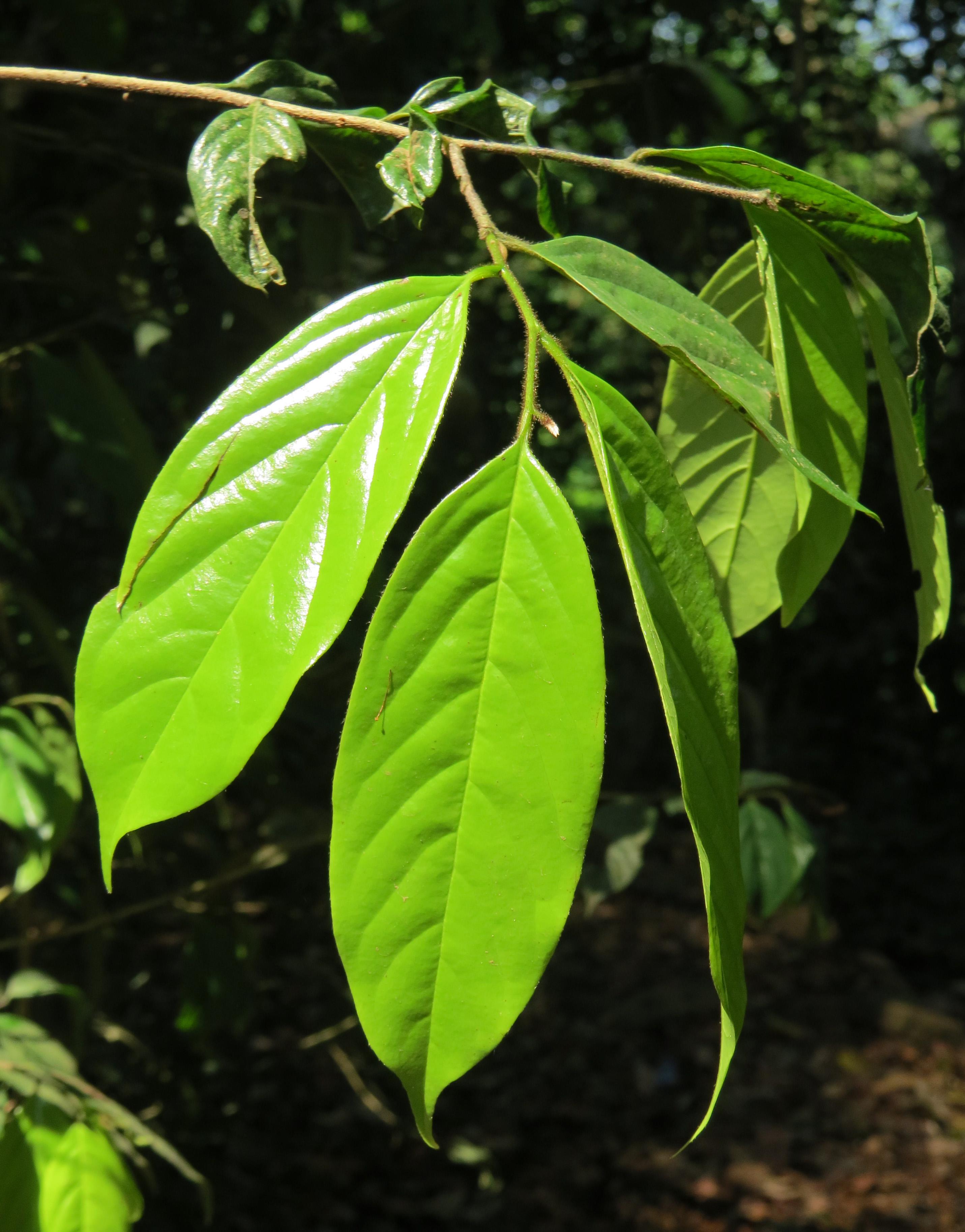 Meiogyne pannosa